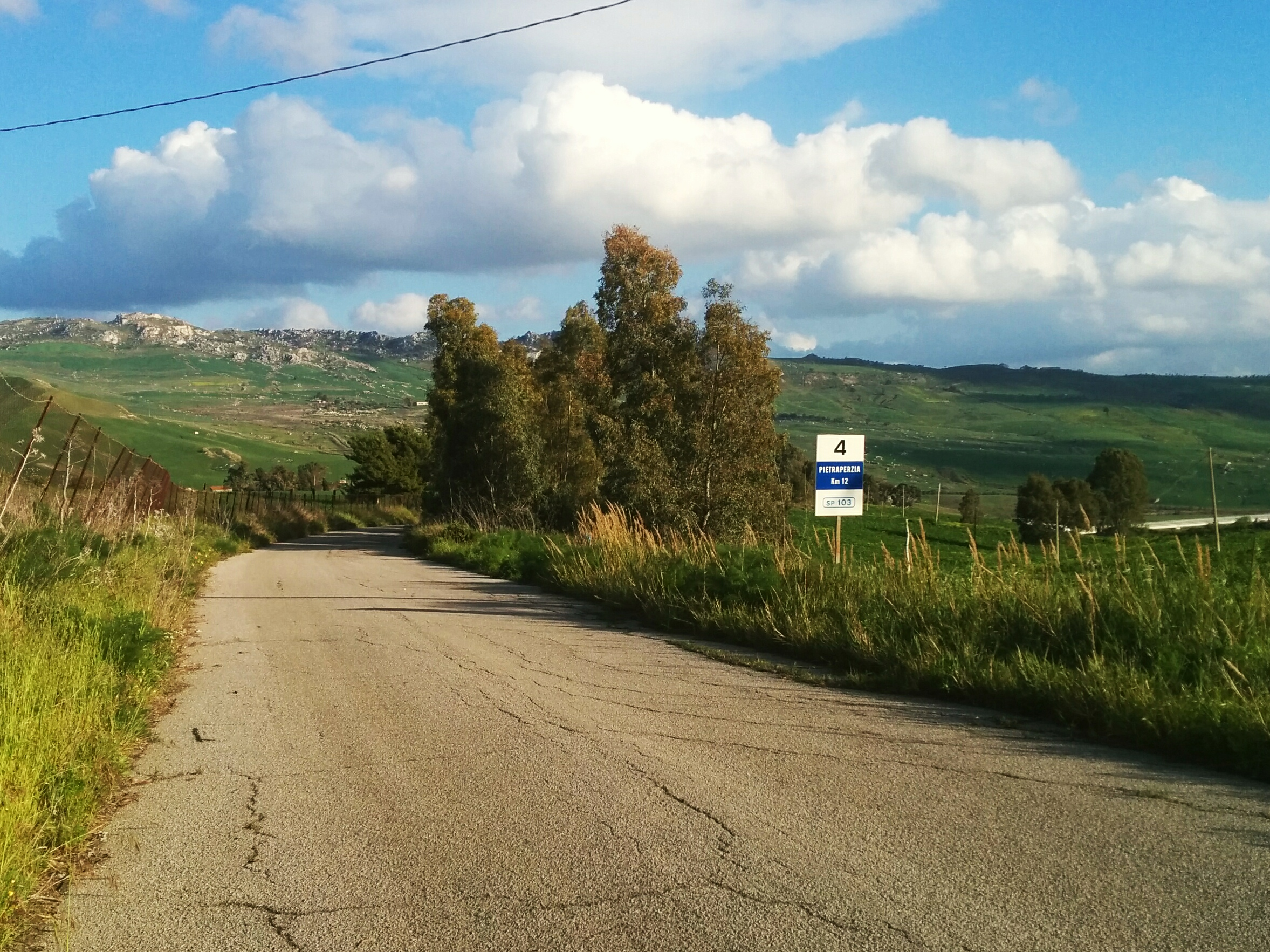 Fourth kilometre milestone in road strada provinciale 103 (province of Caltanissetta) in Besaro (Caltanissetta).